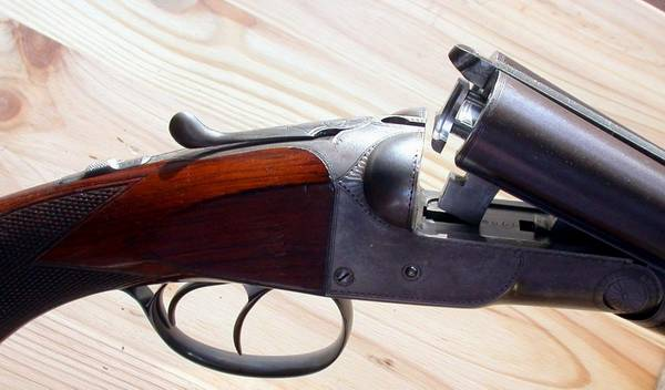 Colt 1883 Shotgun, breech